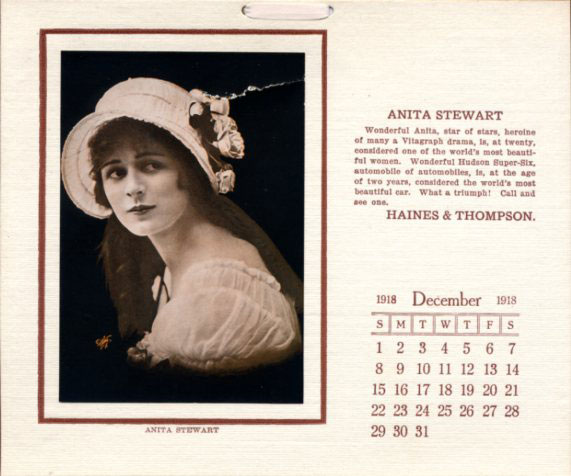 Anita Stewart, calendar for the Hudson Super-Six